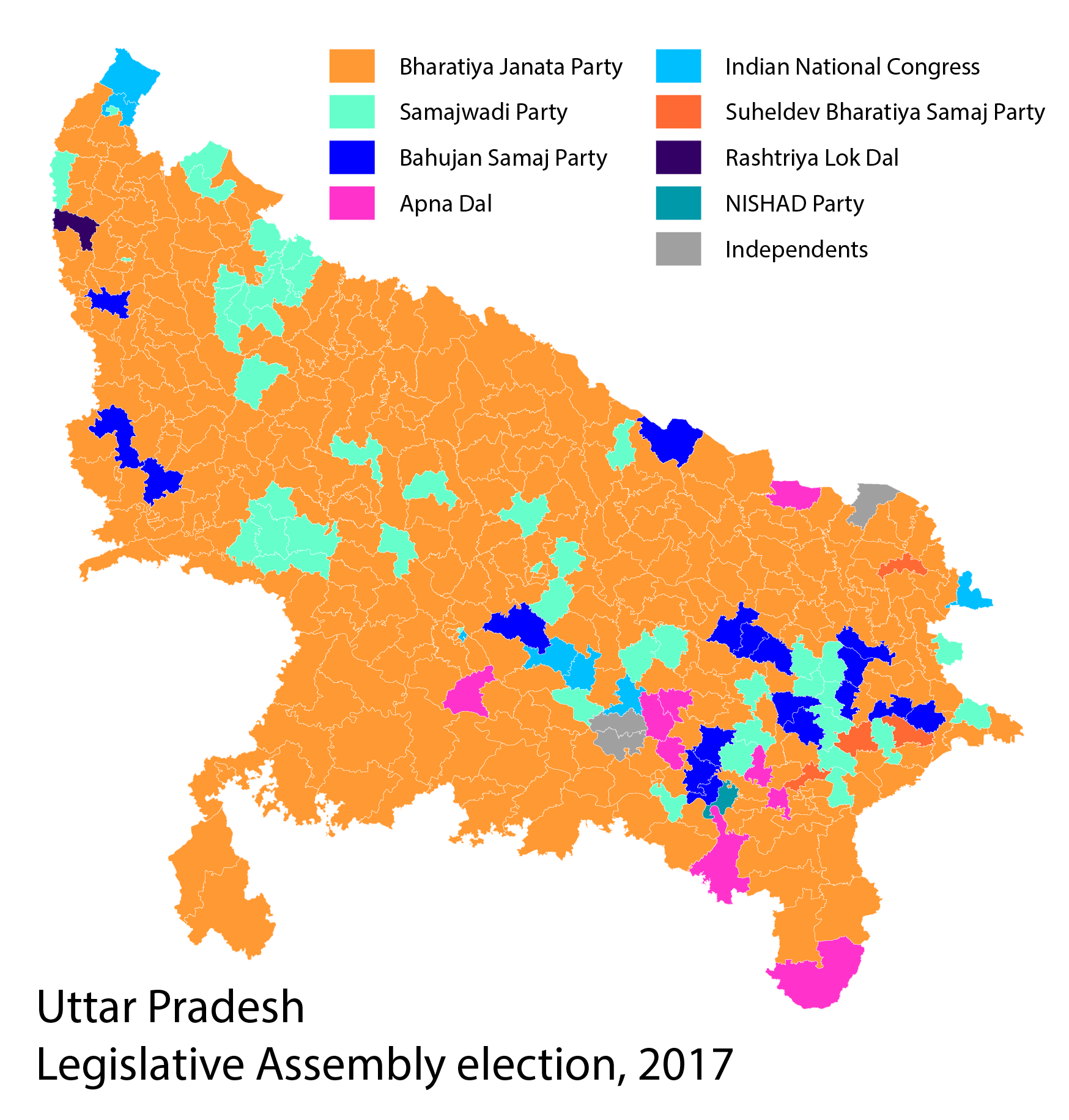 A map showing the results of the Uttar Pradesh Legislative Assembly election, 2017.